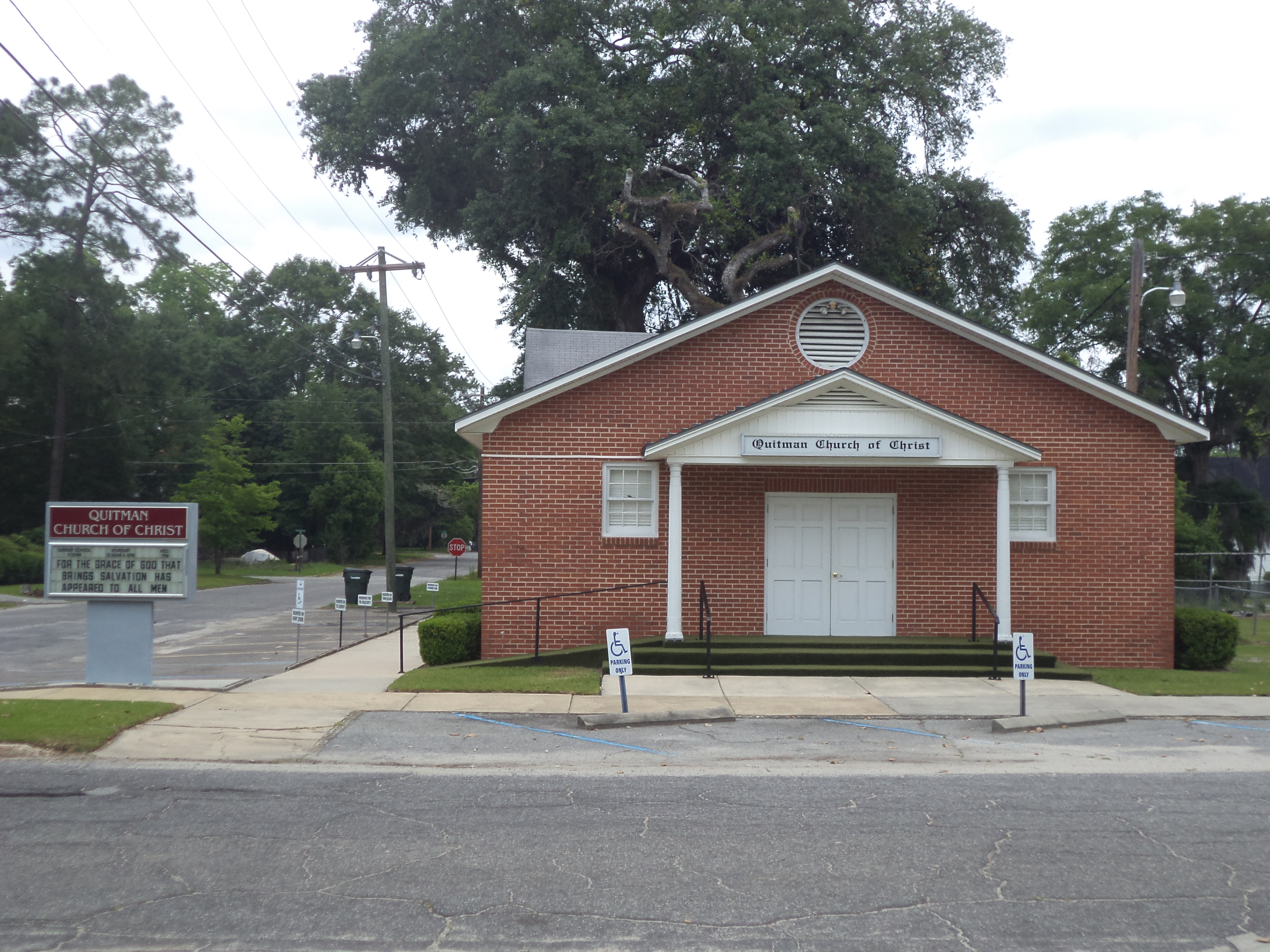 Quitman Church of Christ, 111 W. Stephens Street, Quitman, Brooks County, Georgia